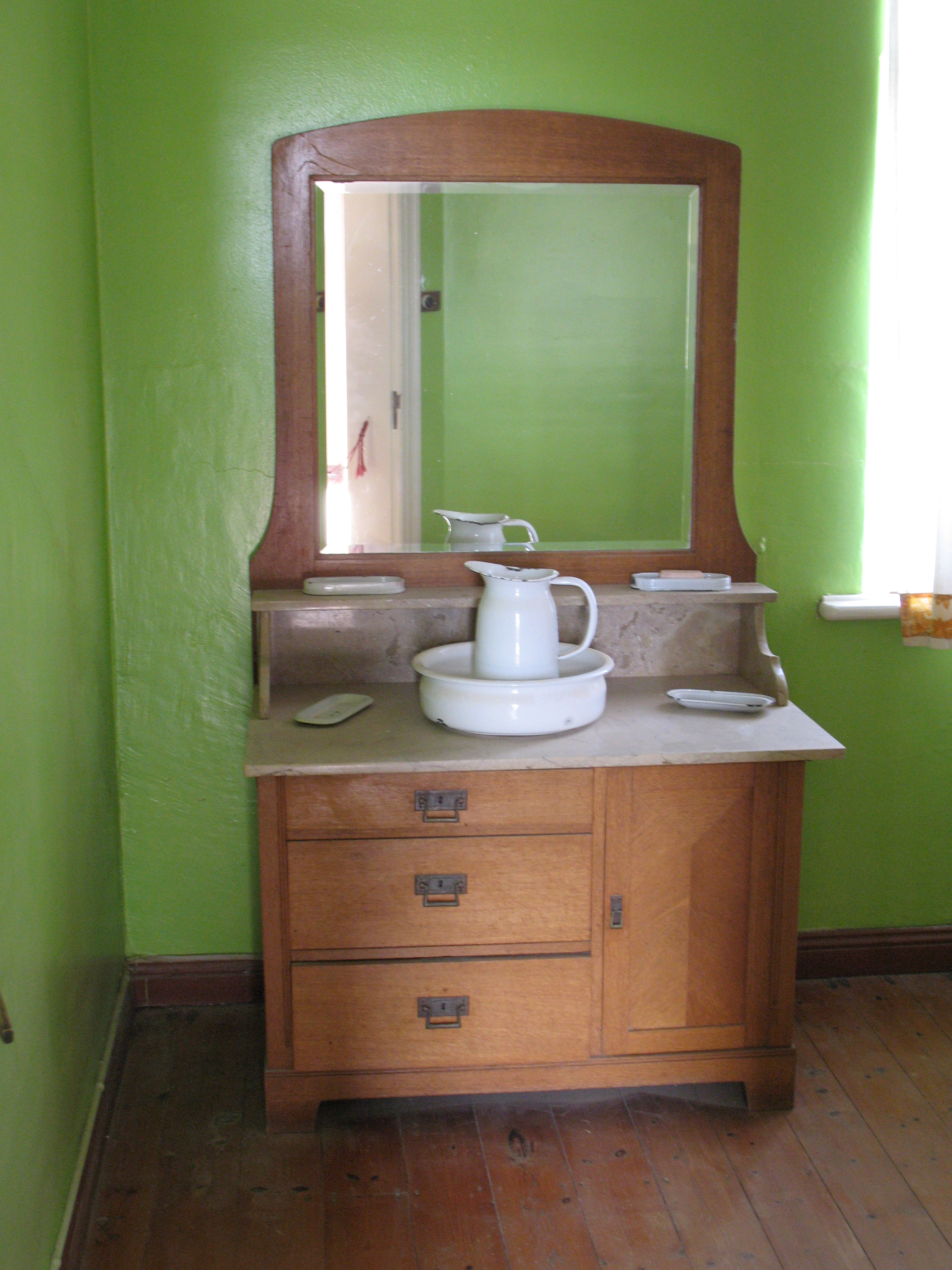 Washstand, house of the Shop owner, Ghost town Kolmannskuppe, Namibia